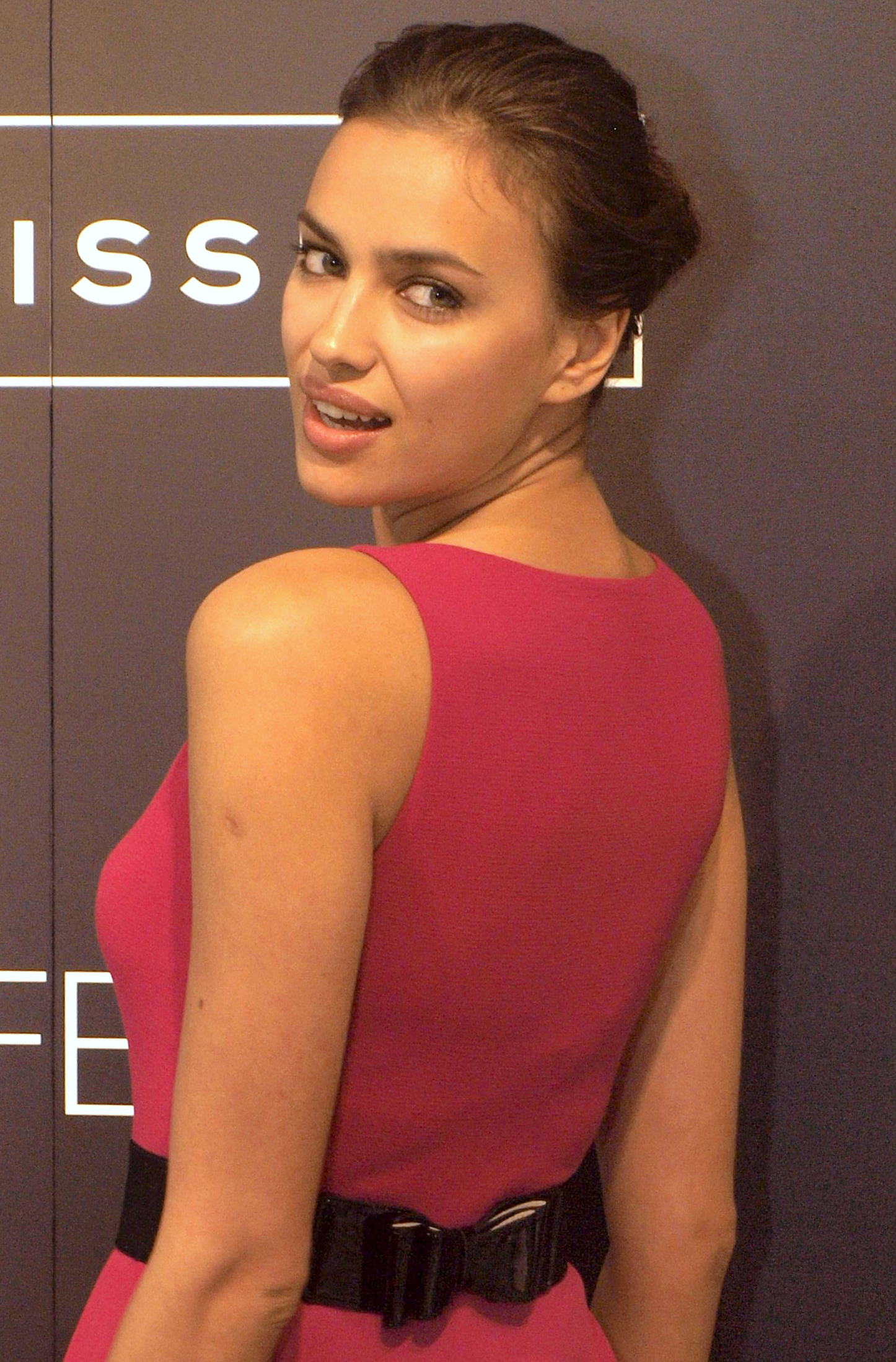 Irina Shayk in Lisbon, April 20, 2012.